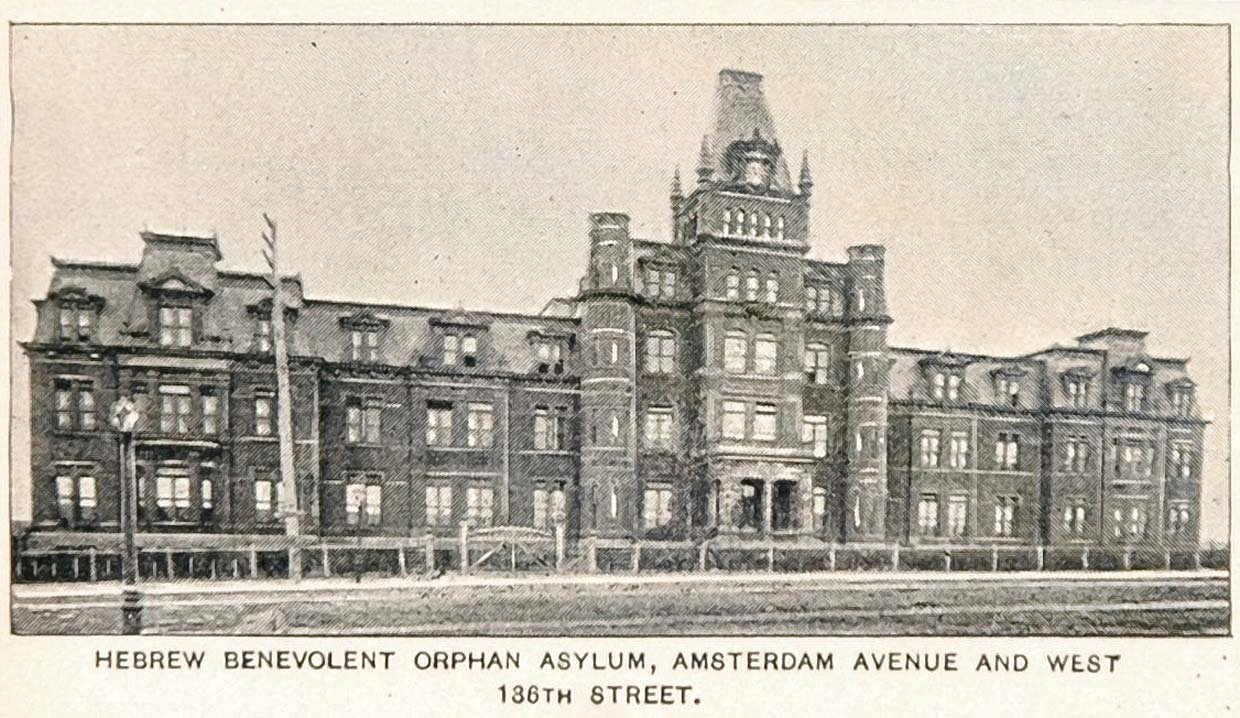 Hebrew Orphan Asylum of New York, Amsterdam Avenue between 136th and 138th Streets. Later used by City College before being demolished. Current site of the Jacob H. Schiff Playground.